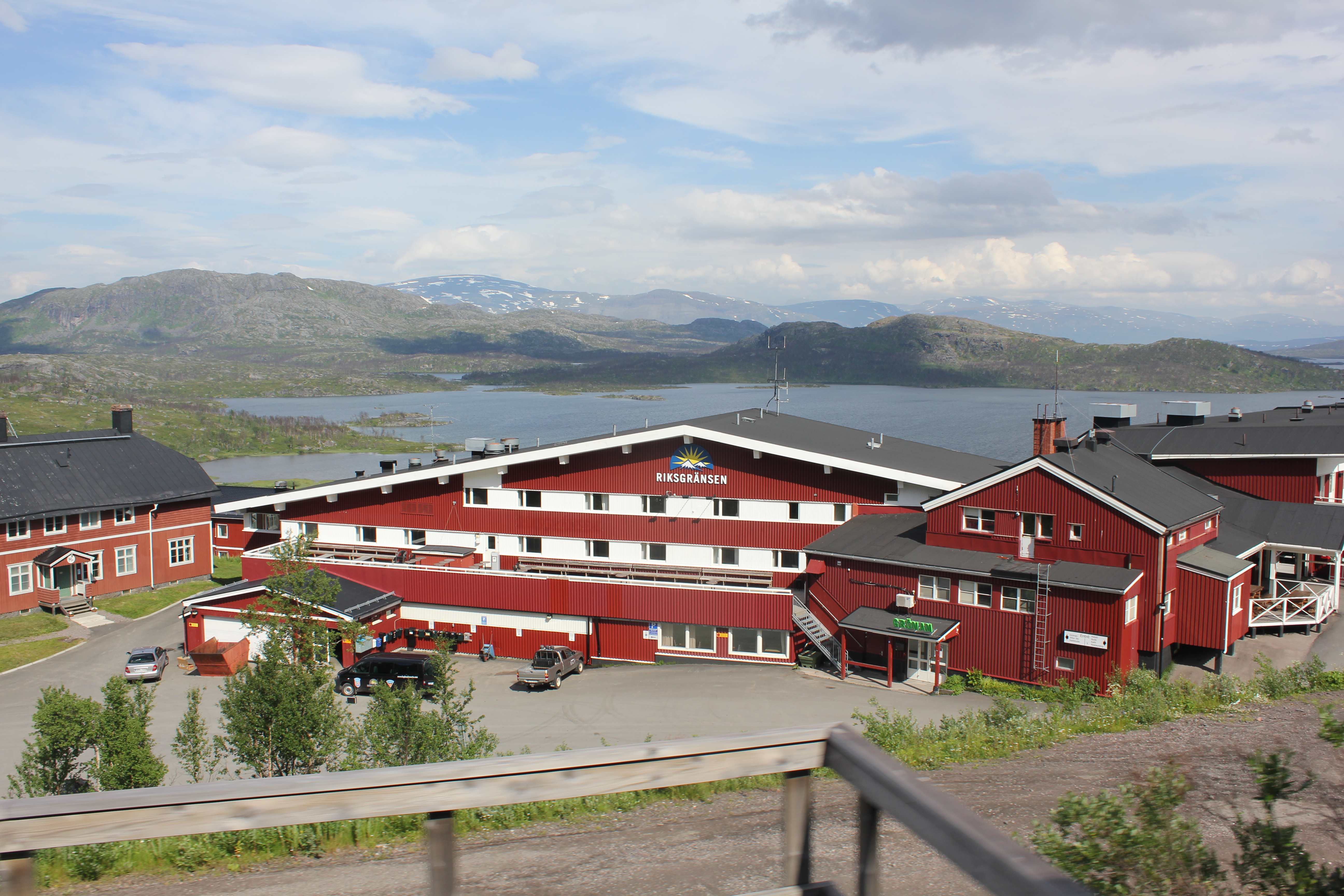 Tourist resort near Riksgränsen railway station on the Swedish side of the Norwegian-Swedish border on the Ofoten railway